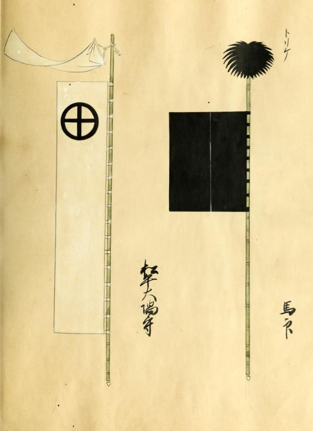 Battle Standard (black shihan style flag with black feather ornament); banner (black circle number 10 crest on white ground with white pendant)